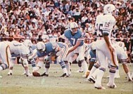 A football card from the 1986 Jeno's Pizza NFL football card stickers set of Houston Oilers quarterback Dan Pastorini calling signals during the 1978 AFC Wild Card game. The card is numbered #43 in the set. The back of the card reads: HOUSTON RETURNS TO THE PLAYOFFS Quarterback Dan Pastorini calls signals in Houston's 17-9 victory over Miami in the 1978 AFC Wild Card Game. It was the Oiler's first appearance in the playoffs since 1967 and first playoff win since 1961. Pastorini, taking the ball from center Carl Mauck, completed 20 for 29 attempts against the Dolphins for 306 yards.